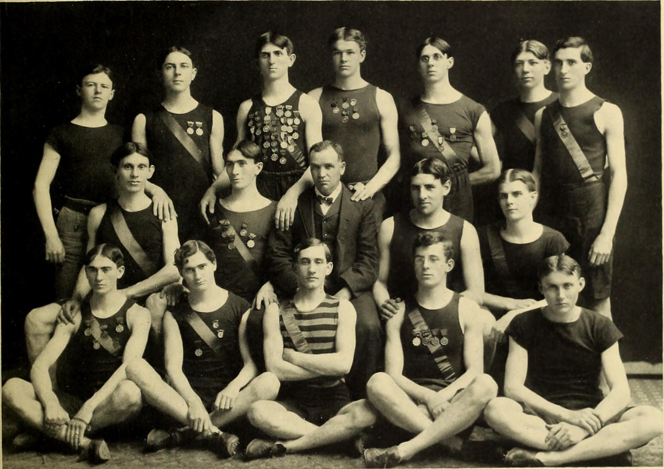 Title: ... Debris Year: 1902 (1900s) Authors: Purdue University Subjects: Purdue University College yearbooks Universitites and colleges Publisher: Indianapolis, Ind. : Press of Baker & Randolph Text Appearing Before Image: ble cross-pulling is entirely avoided; so that this years team,while feeling the loss of last years men, also feels that the efficiency of training offered by .Mr.Freeman is going to bring out even a better all-around team than of any year before. The work of the old men is showing up exceptionally well, especially that of Captain Corns.With the added good showing of the new men, who are easily getting into good track conditiondue to high school work, the prospects of the track team for igo2, for which forty men are trying,are not for a fair showing but that by the seasons close more records will stand to its credit. PURDI iD E H K is1902 119 0 R K E M PURDUEDEBRISI902 L. E. Endslev, 01W. J. Highland J. W. ESTERL1NE Captain TrainerManager L. E. Endslev, 01L. W. Huxtable, 02J. F. G. Miller, 03J. B. Corns, 03A. Levey, 03 A. D. Smith, 03V. S. Rice, 03W. E. Miller, 03L. J. Kirby, 04M. H. Coppes, 04 M. Goodspeed, 04W. H. Forman, 04 F. Riebel, 04 P. Crumrine, 04 G. C. McCann, 04M. Gwinn, 04 Text Appearing After Image: 19Ol TracK. Team U R D U R O R D PURDUEDEBRISI902